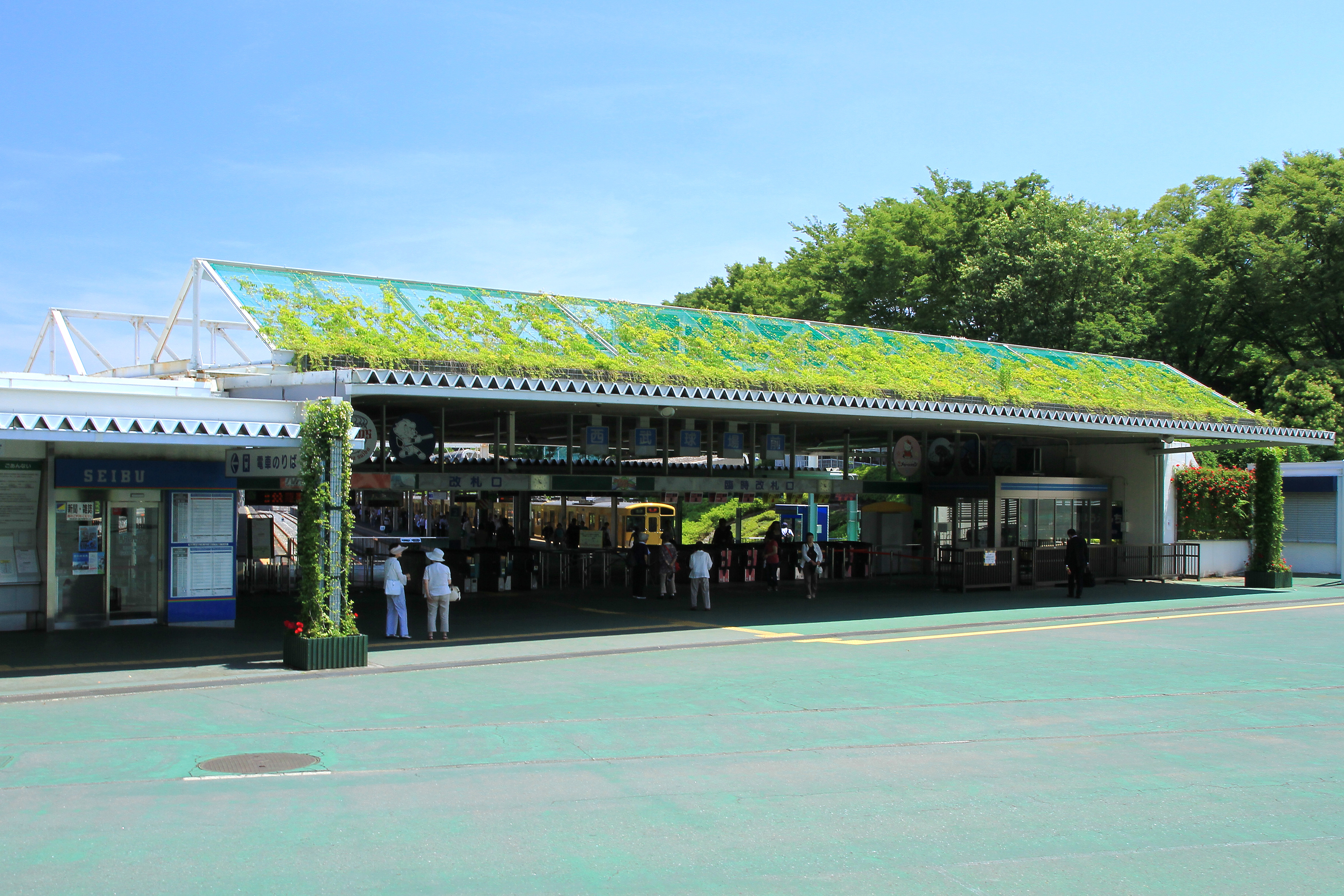 Entrance to Seibu-Kyujo-mae Station on the Seibu Sayama Line